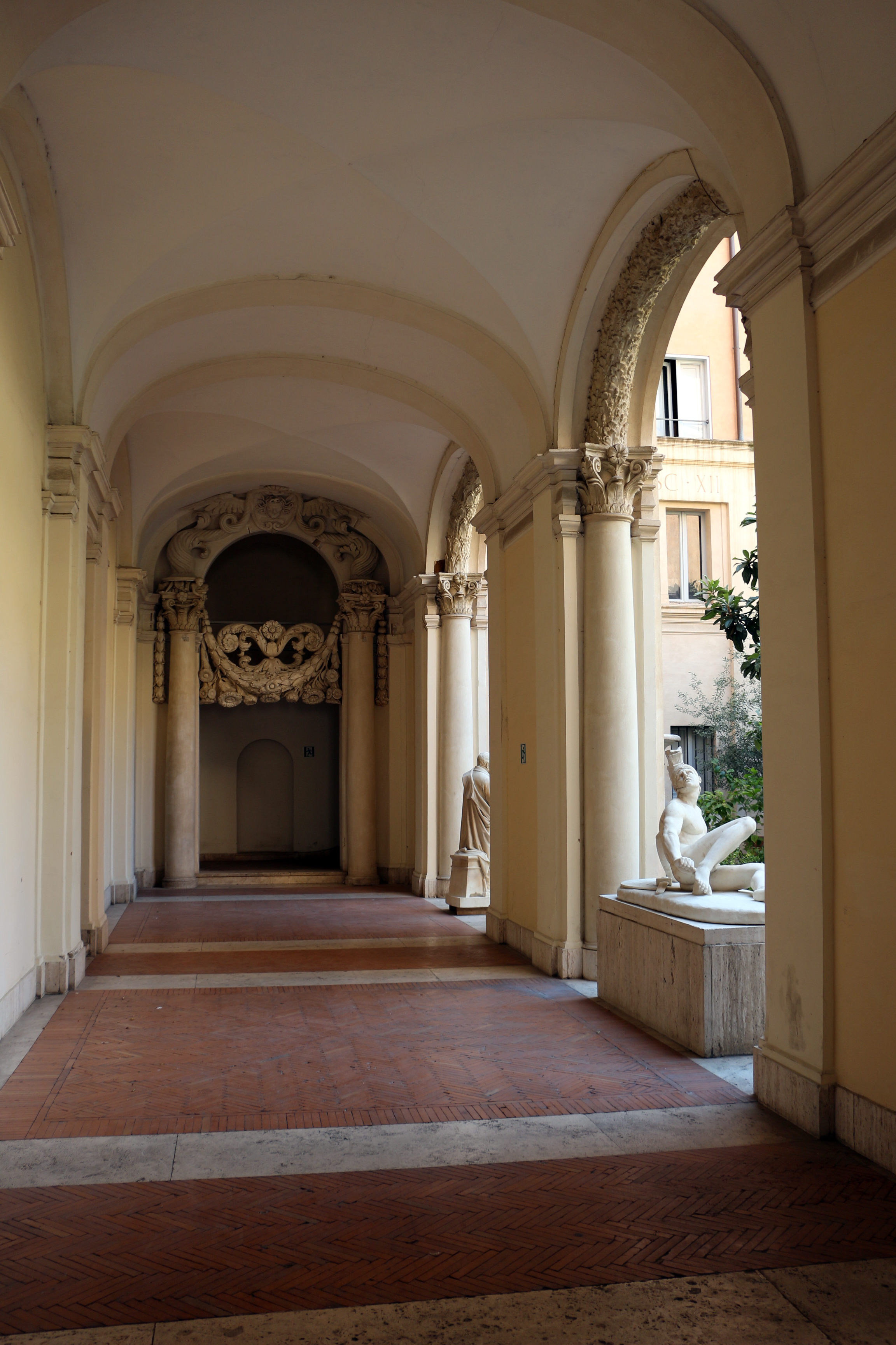 Accademia di San Luca, Rome